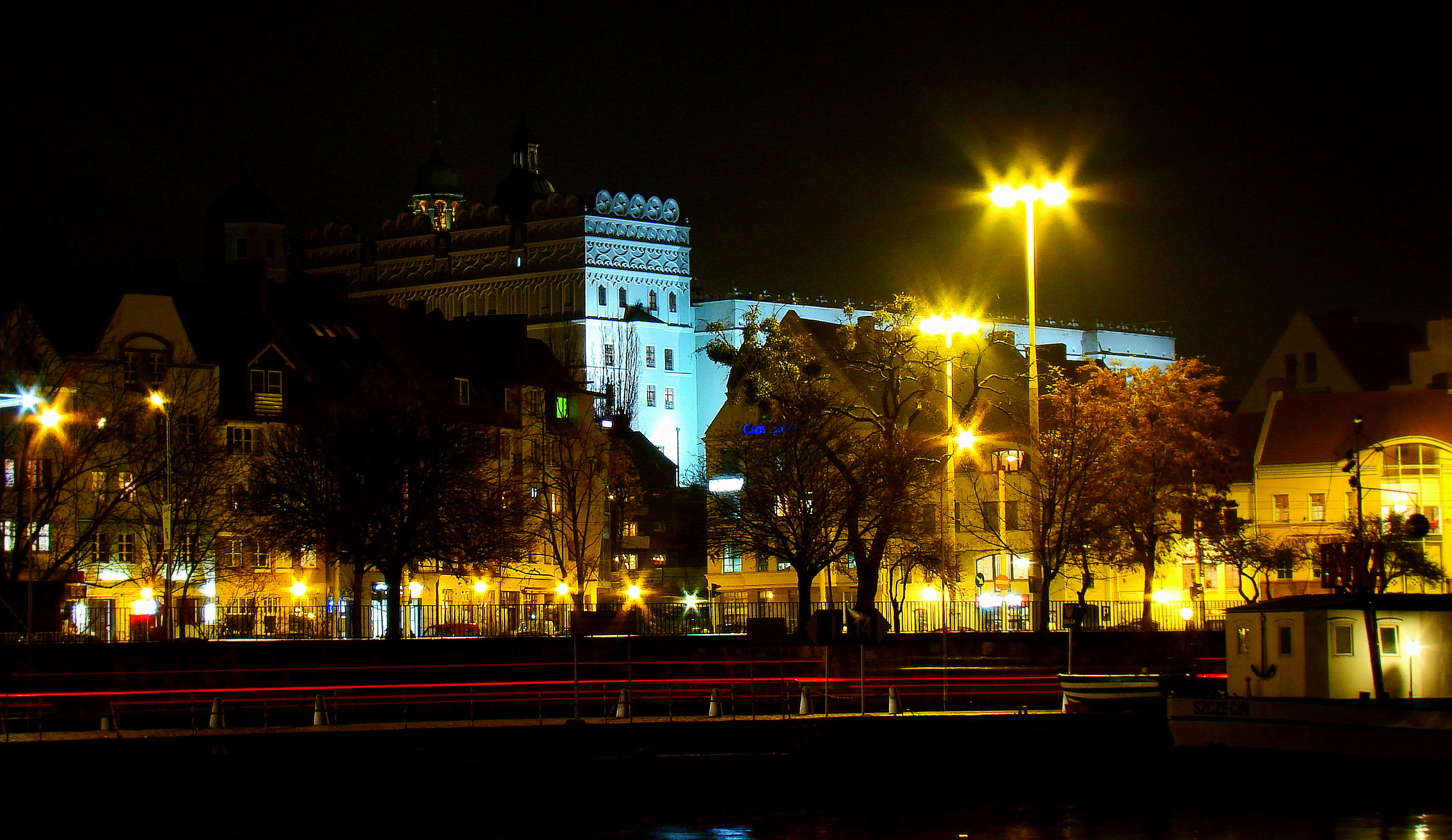 Old Town & Pomeranian Dukes' Castle in Szczecin (illumination), Poland